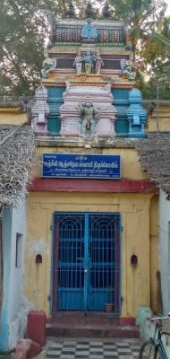 Thanjavursivaganga parksanjeevi anjaneyar temple தஞ்சாவூர் சிவகங்கைத்தோட்டசஞ்சீவி ஆஞ்சநேயர் கோயில்